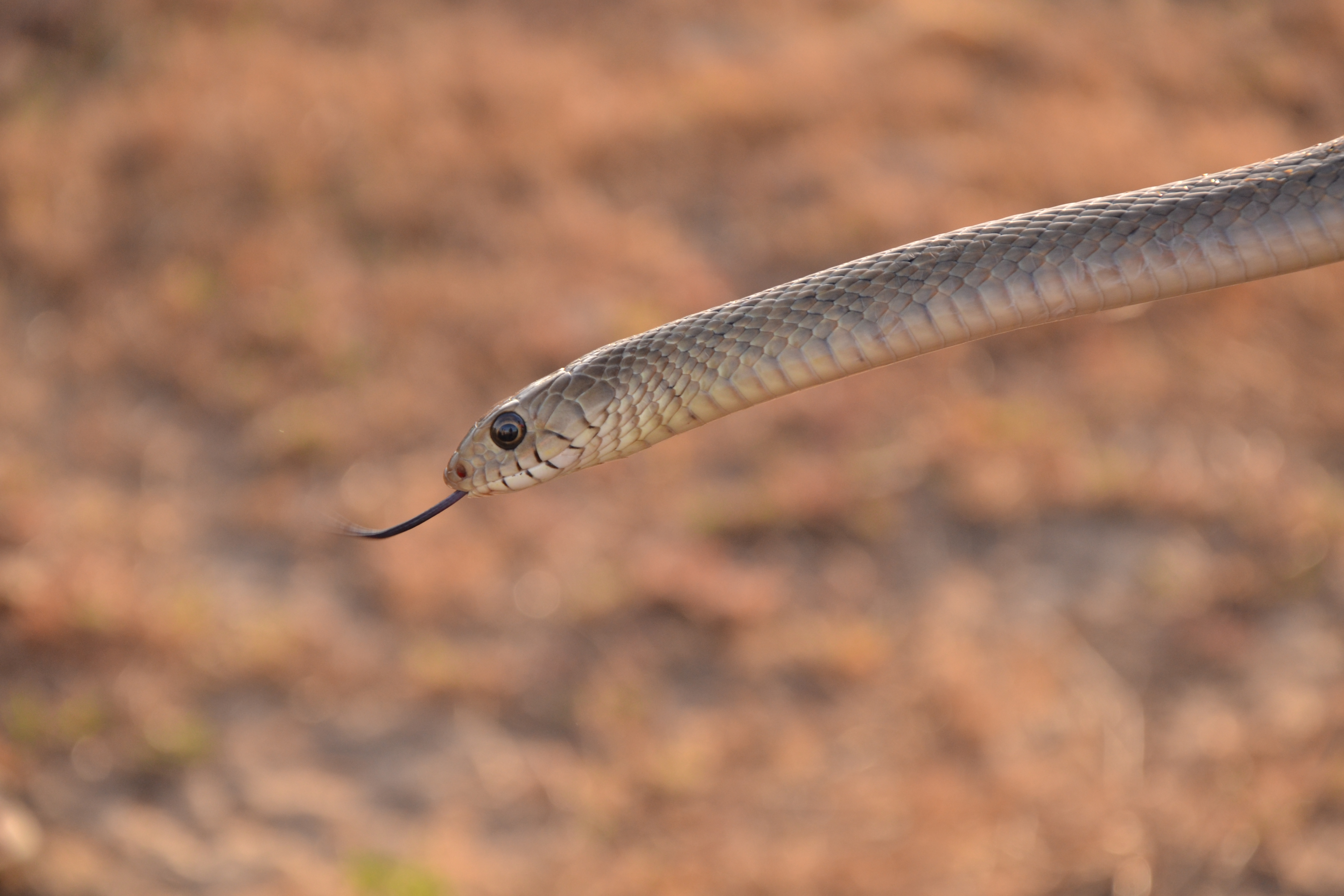 A common rat snake found in India. Rat snakes are some times mistaken for the Spectacled cobra which is found in India